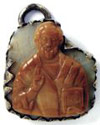 Cameo with representation of saint Nicolas from Crkvina (Slavkovica), Ljig municipality, Serbia. Dated to the 15th century, believed to have belonged to Irene Kantakouzene Branković.